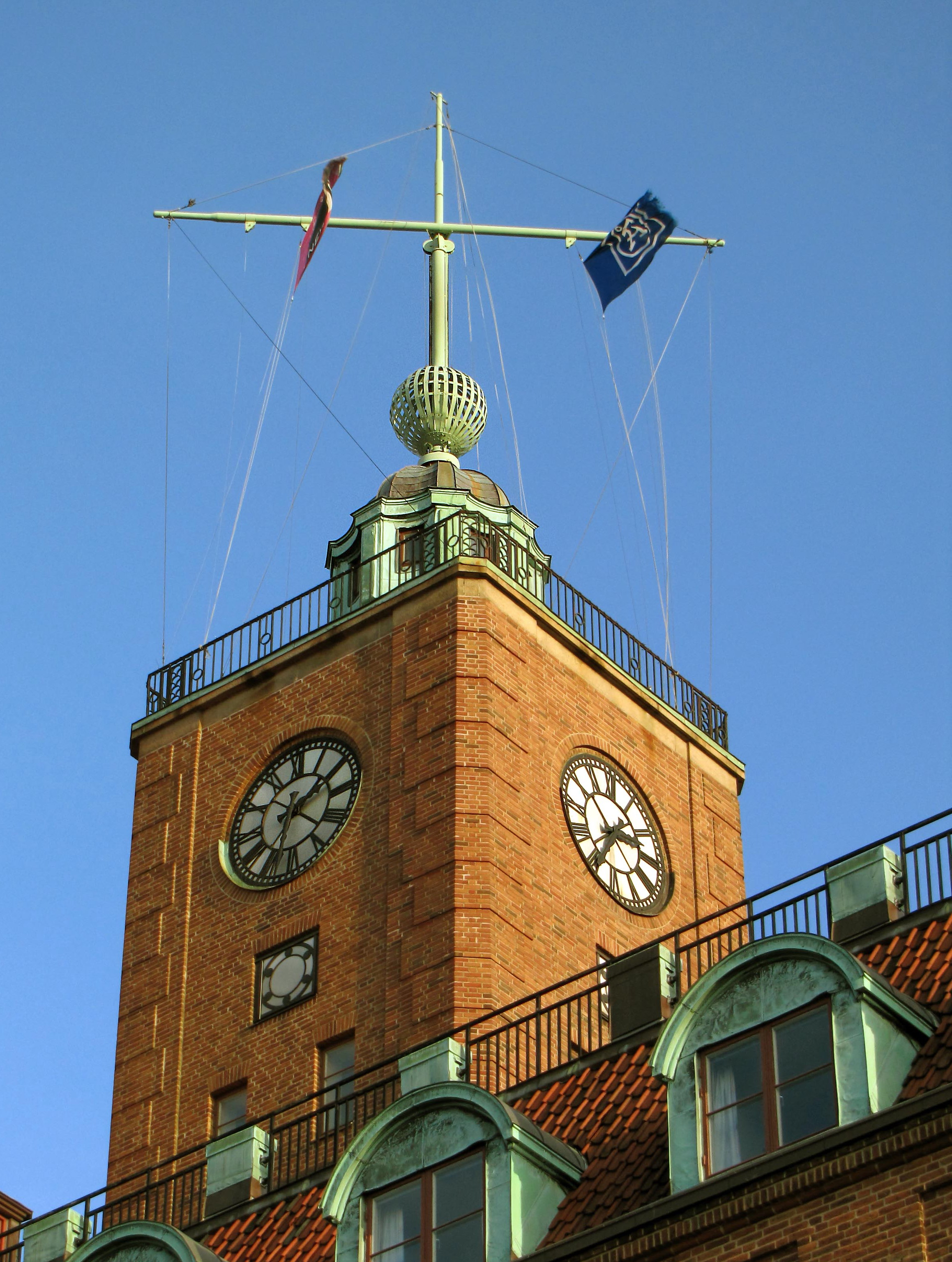 The tower of the Navigation school building in Göteborg, Sweden, with its time ball.